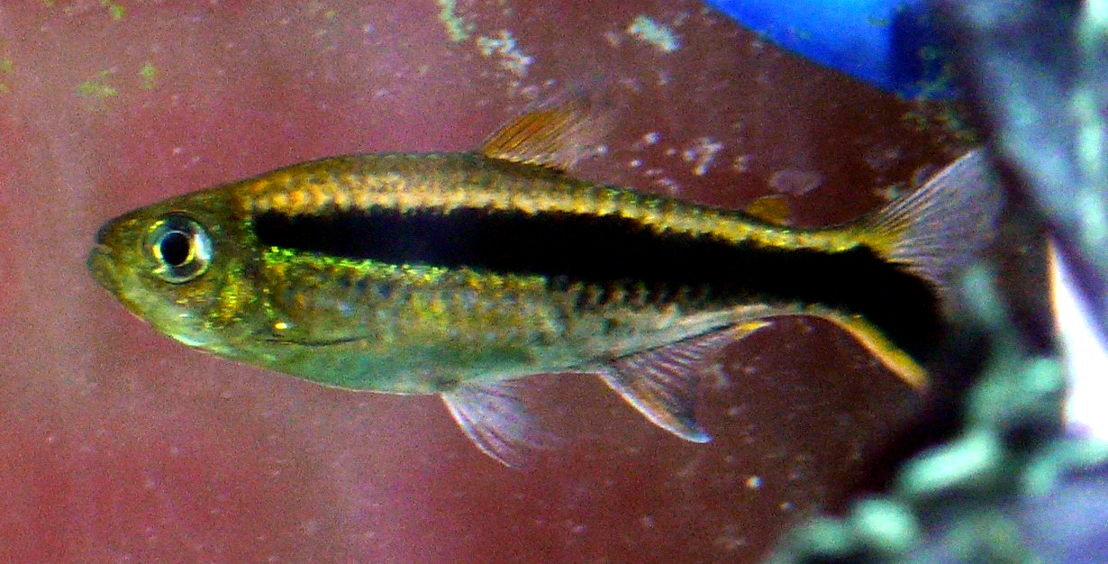 Thayeria boehlkei (blackline penguinfish, blackline Thayeria, hockey-stick tetra, penguin fish and penguin tetra) photographed in an aquarium. Tail slightly obscured by a plant; blue line in rear is part of the plumbing.